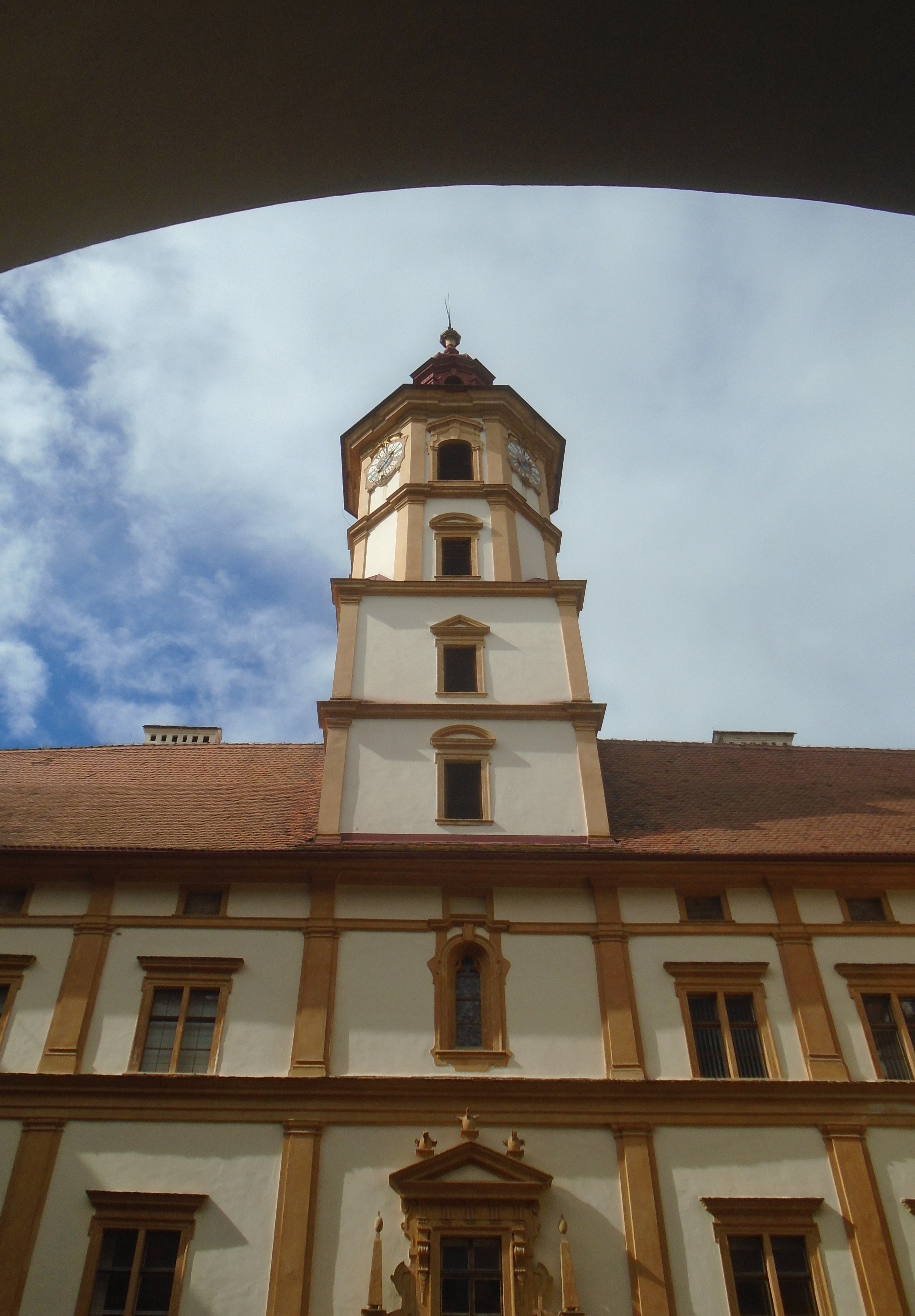 Eggenberg Palace